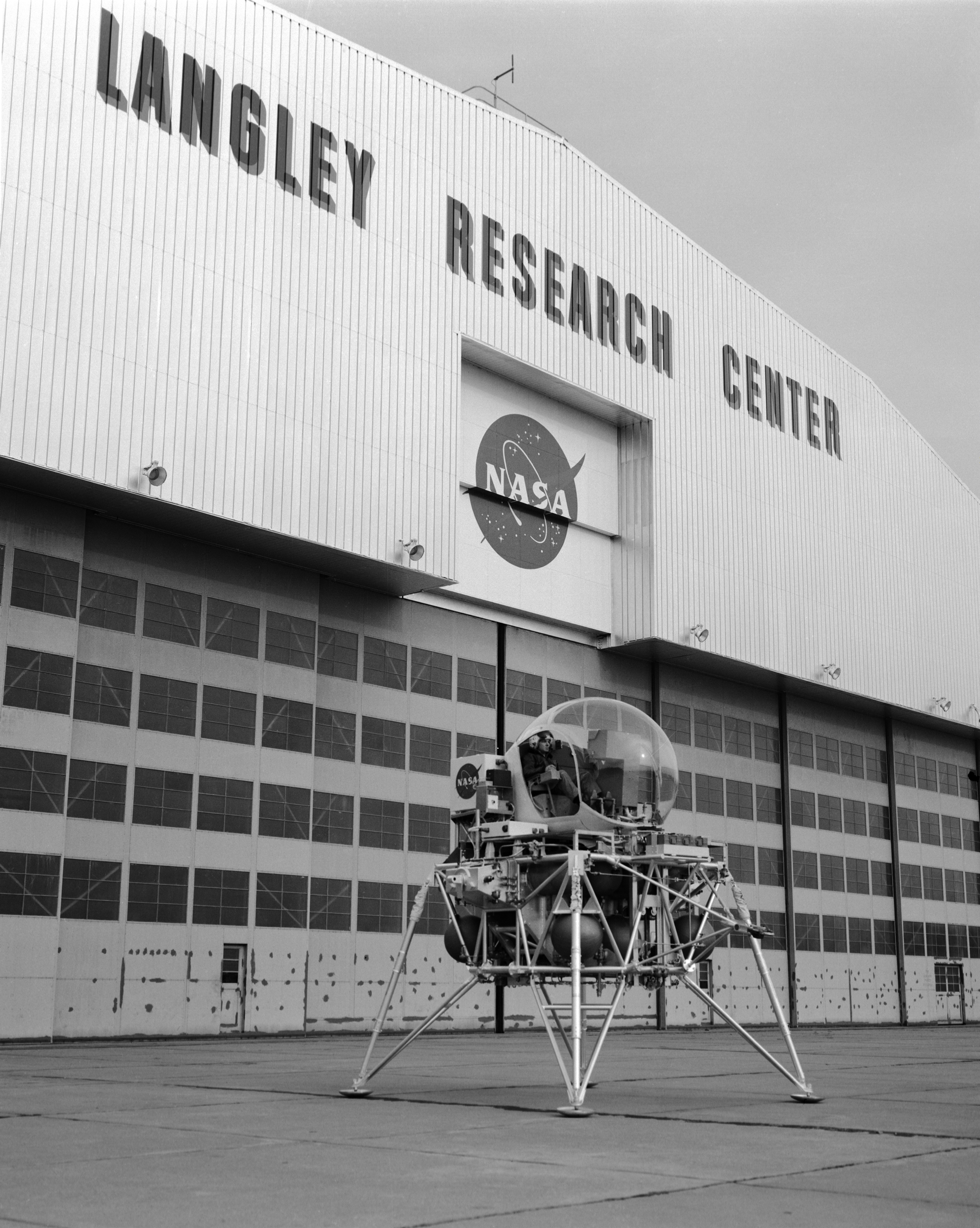 "Lunar Landing Research Vehicle outside NASA Langley hangar. The LLRV was later shipped to Houston to train astronauts for landing the Lunar Module."NOTE! - This file name is mislabeled. Original source has photo misidentified as the LLRV. The vehicle shown is actually the Lunar Excursion Module Simulator (LEMS) that was used at the LLRF (Lunar Landing Research Facility) at Langley. The LLRV was a free-flying vehicle, while this LEMS vehicle only flew tethered, hanging from the huge gantry at the LLRF site. For proper identification